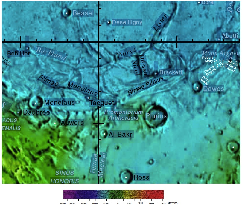 Part of the USGS near side lunar chart